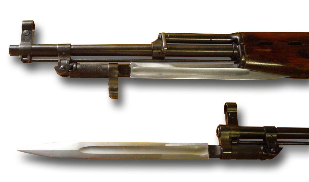 Bayonet of the Soviet SKS.